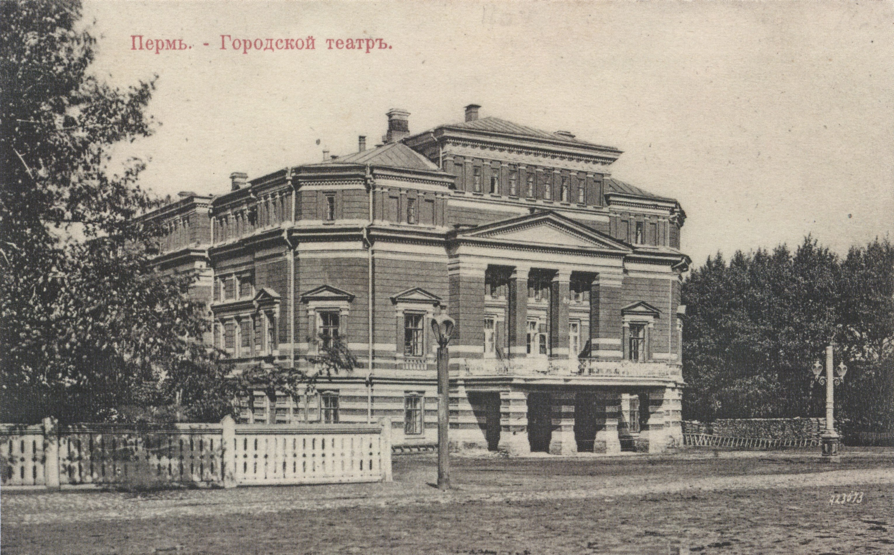 City theatre